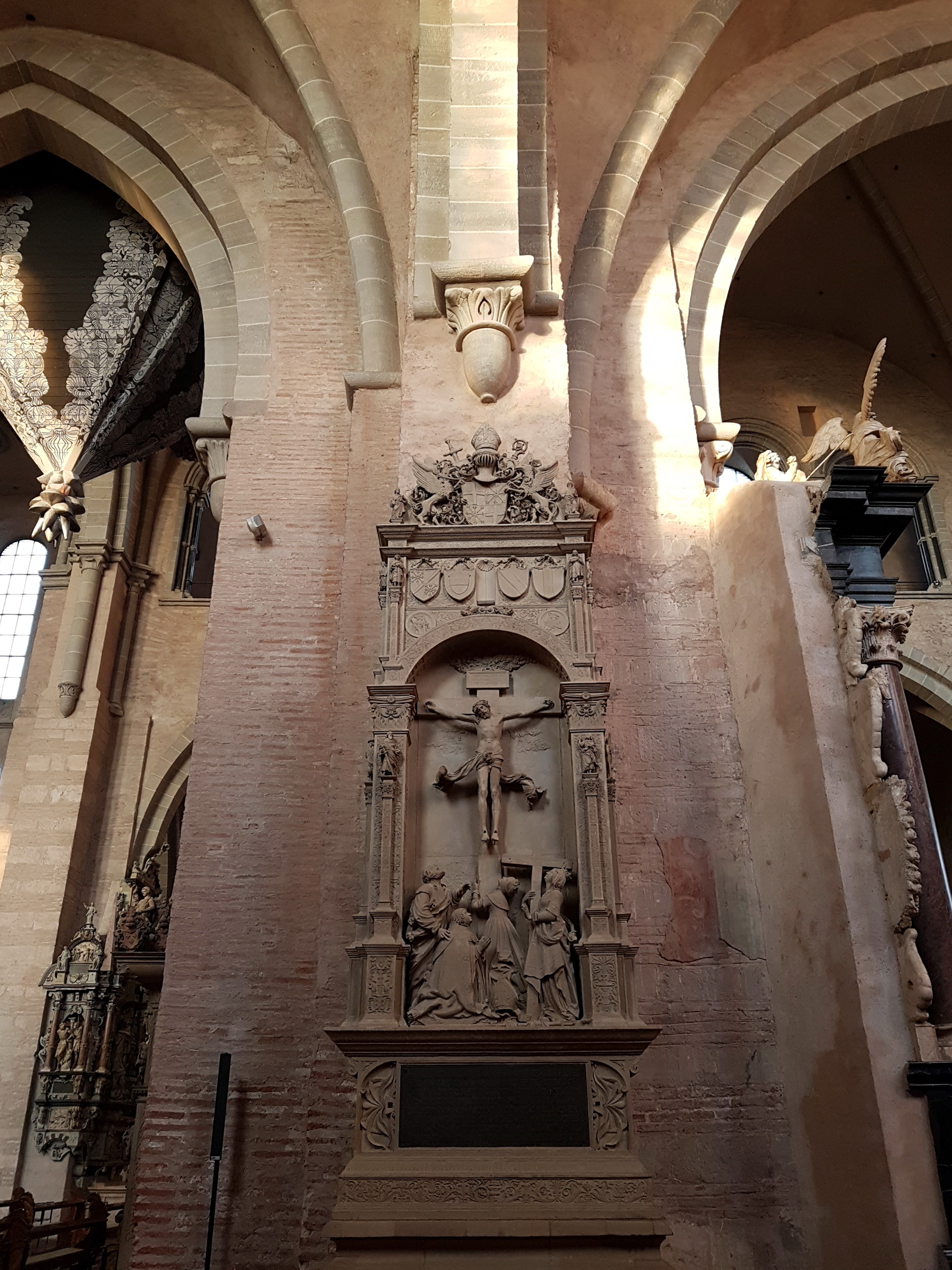 Grave monument of Richard von Greiffenklau zu Vollrads, archbishop-elector of Trier († 1531) in Trier Cathedral, Germany.